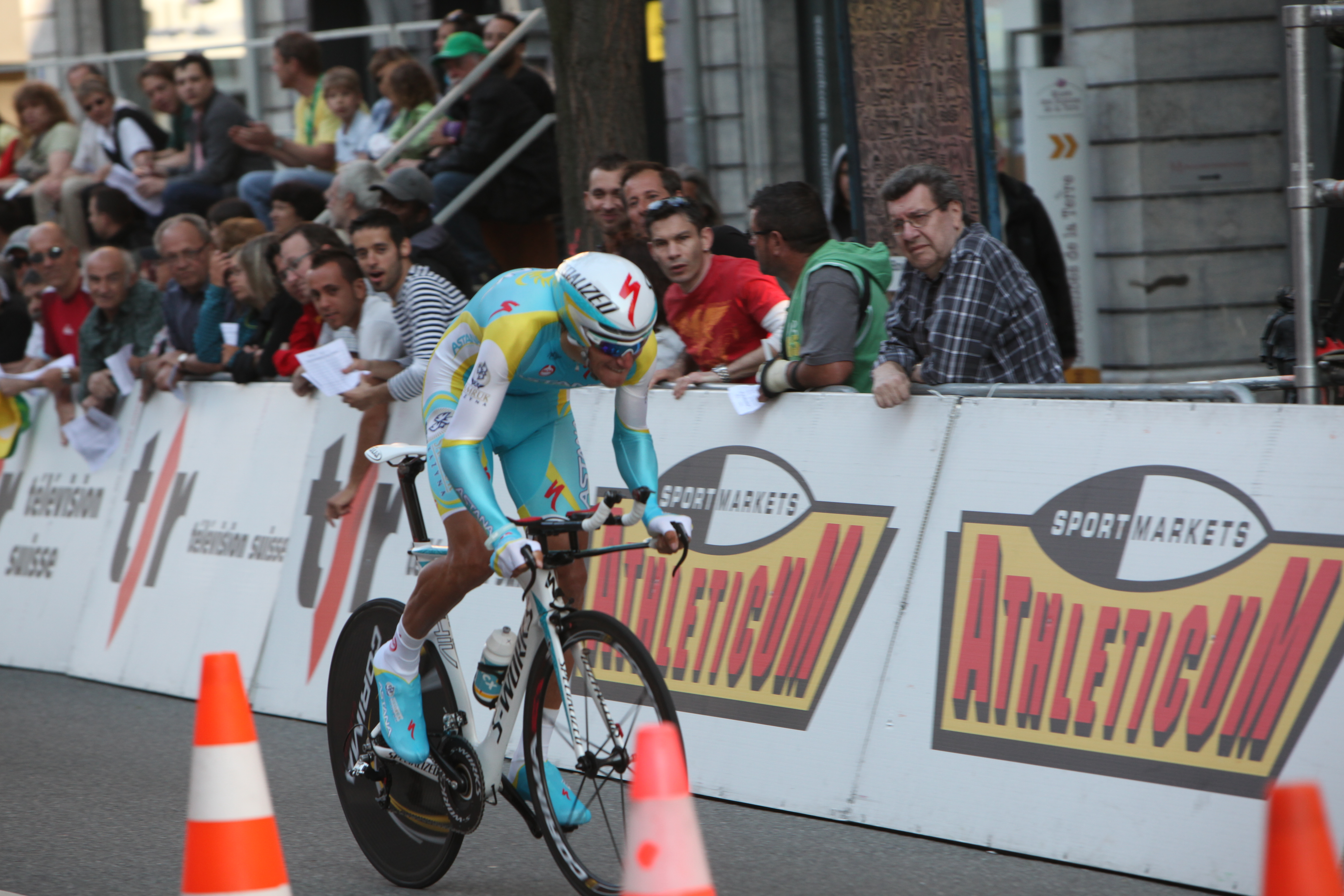 Roman Kreuziger at the prologue of the Tour de Romandie 2011